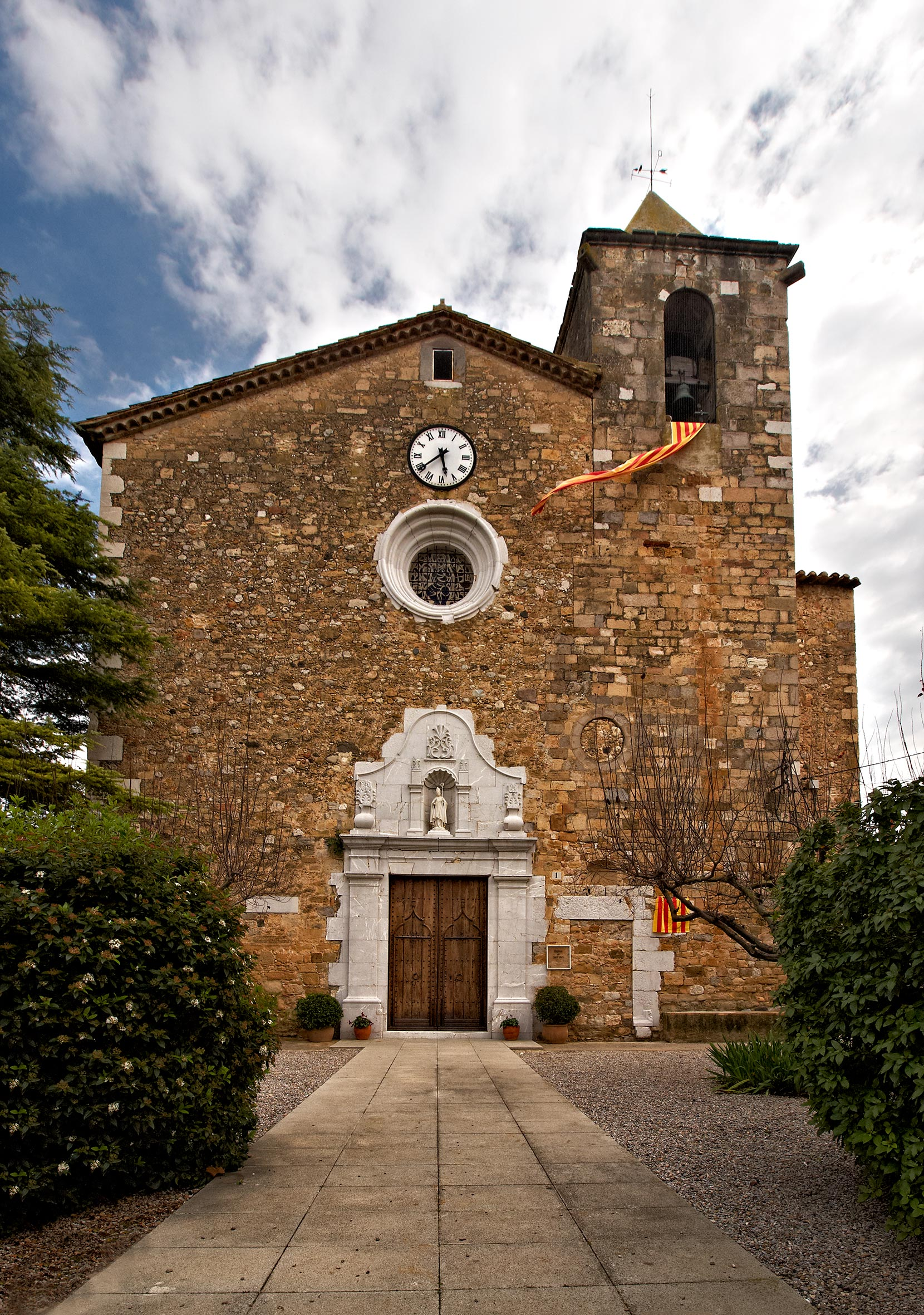 Sant Martí church of Pontós, Catalonia, Spain.